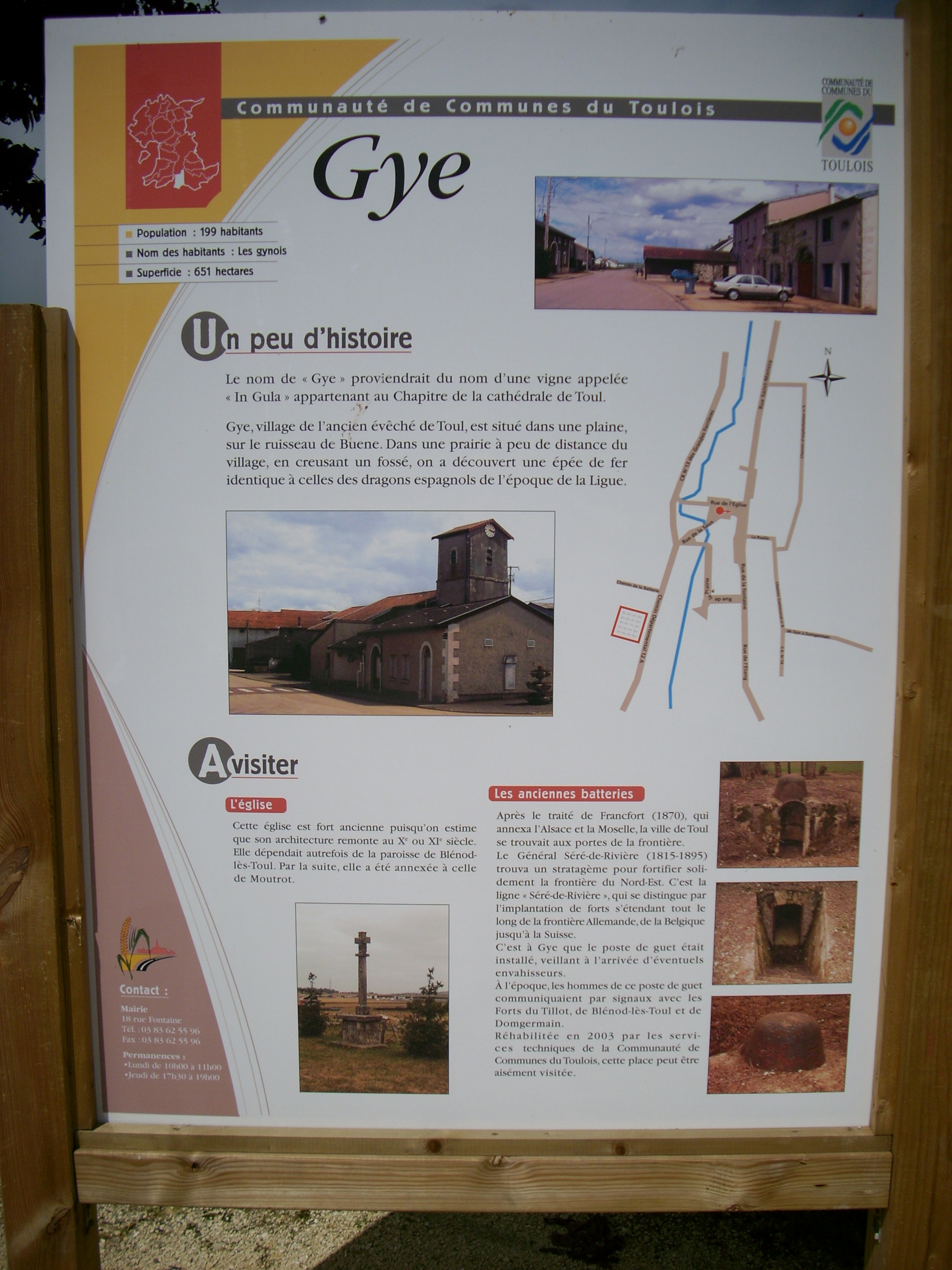 Informations about Gye that you can read in the center of the village